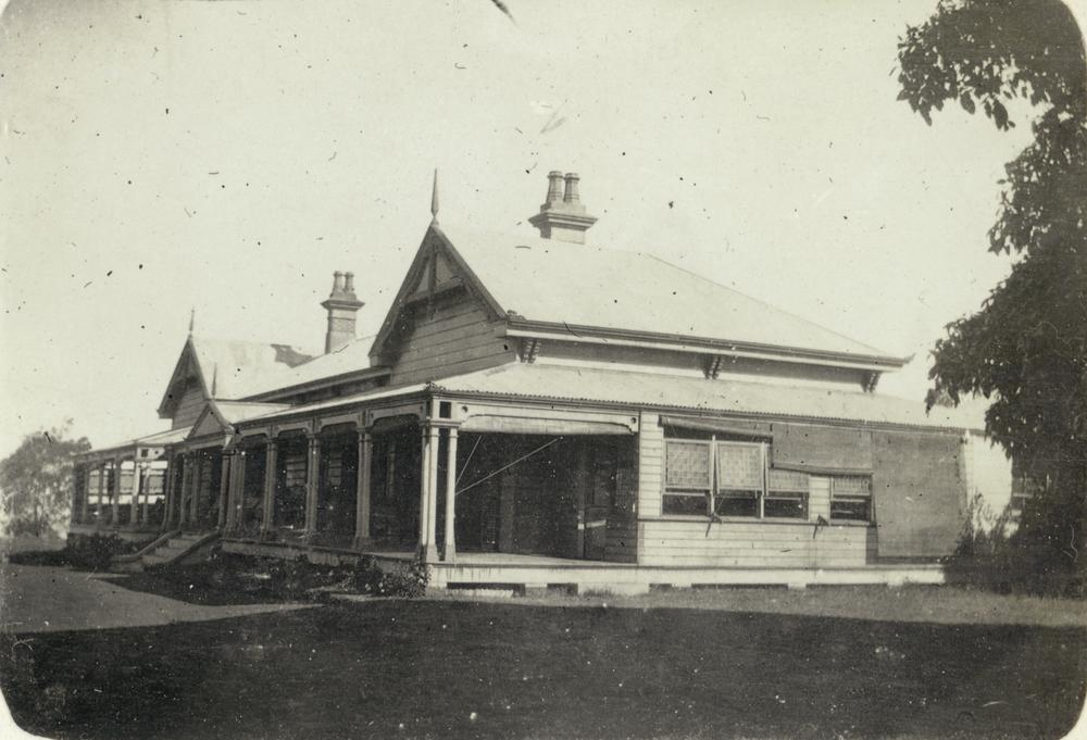 Gabbinbar homestead, Toowoomba, January 1908. Frederick John Napier Thesiger, Baron Chelmsford (born August 12, 1868, London, England, died April 1, 1933, London), was sworn in as Governor of Queensland on 20 November 1905. He had several titles, including Viscount Chelmsford and Lord Chelmsford. He was the son of a distinguished soldier and grandson of a statesman. Lord Chelmsford studied Law and was called to the Bar in 1893. The following year he married Frances Guest, the daughter of Lord Wimbourne, and they brought their young family with them to Queensland. Both Lord and Lady Chelmsford were accomplished musicians, he playing violin-cello and she piano. They formed chamber music groups at Government House in Brisbane and later in Sydney. He left Queensland to become Governor of New South Wales in 1909 and after World War I spent a period as Viceroy of India, from 1916-1921. Photograph is part of Governor Chelmsford's private collection.